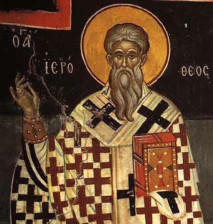 Hierotheos the Thesmothete, by Theophan the Greek, in Anapausas Meteora, Greece.